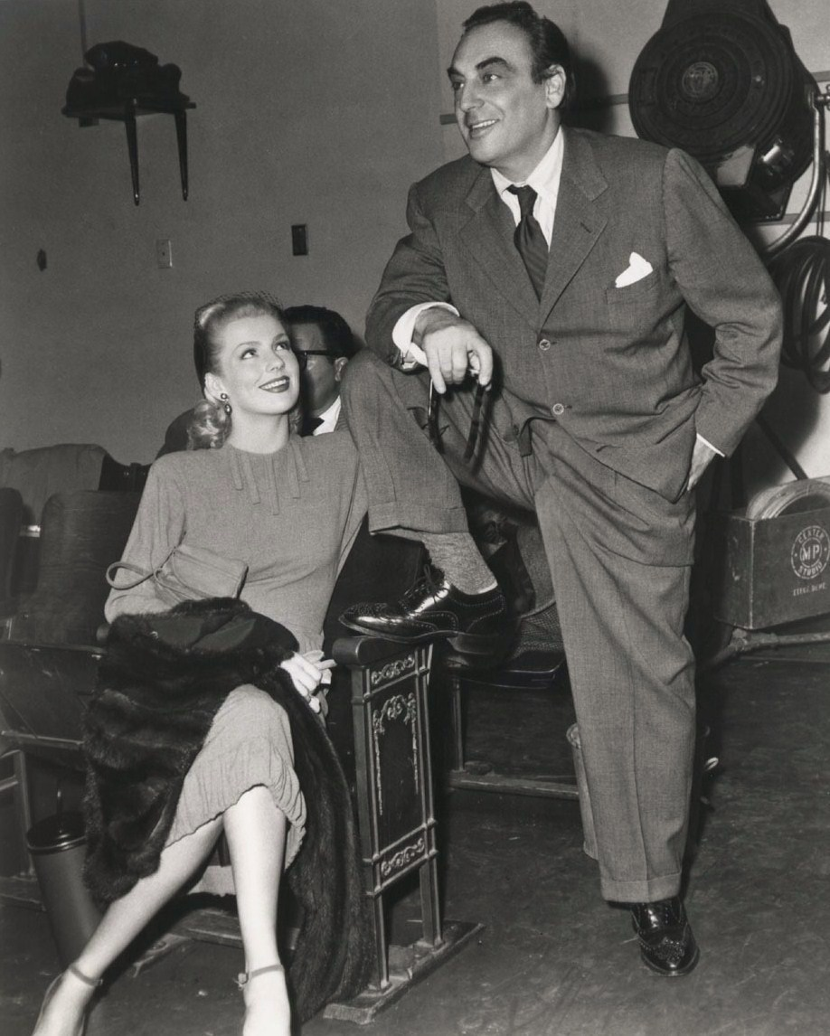 Dolores Moran & Benedict Bogeaus (her husband) - publicity still